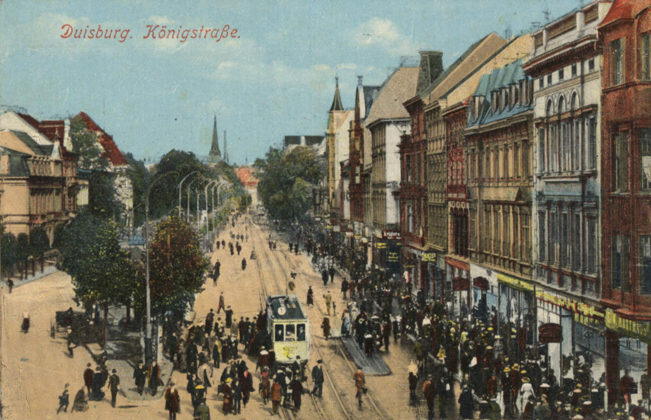 Königstraße at Duisburg with electric tram about 1900. Historical postcard.